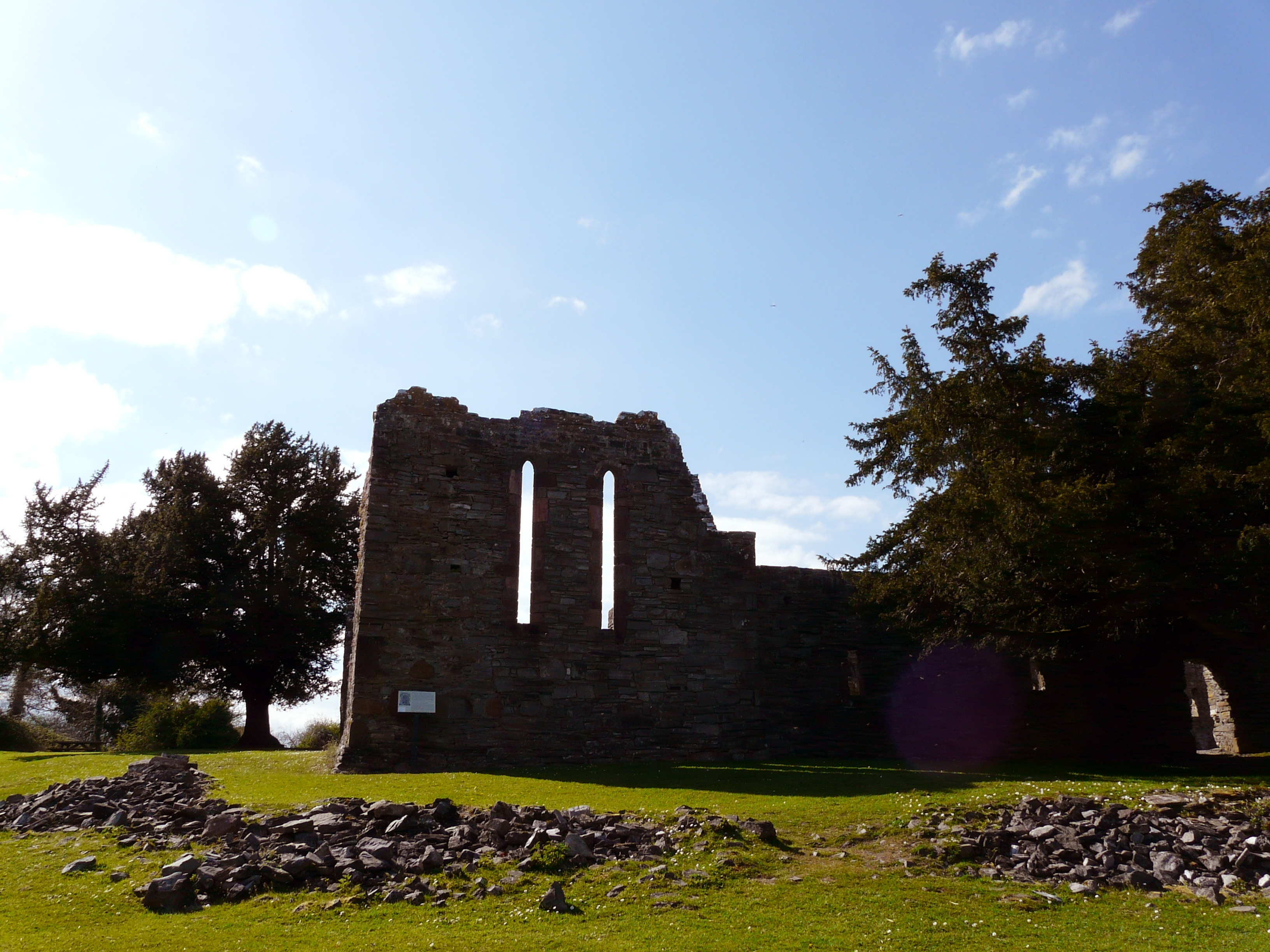 Front of the remains of Innisfallen Monastery